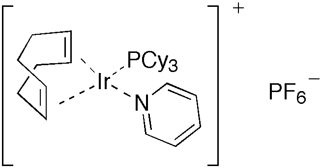 chemical structure of Crabtree's catalyst